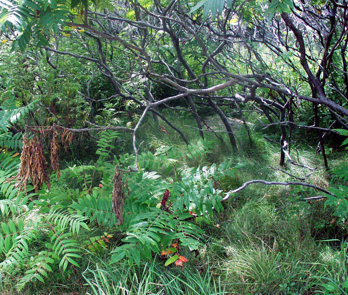 24034-Odiorne Point State Park